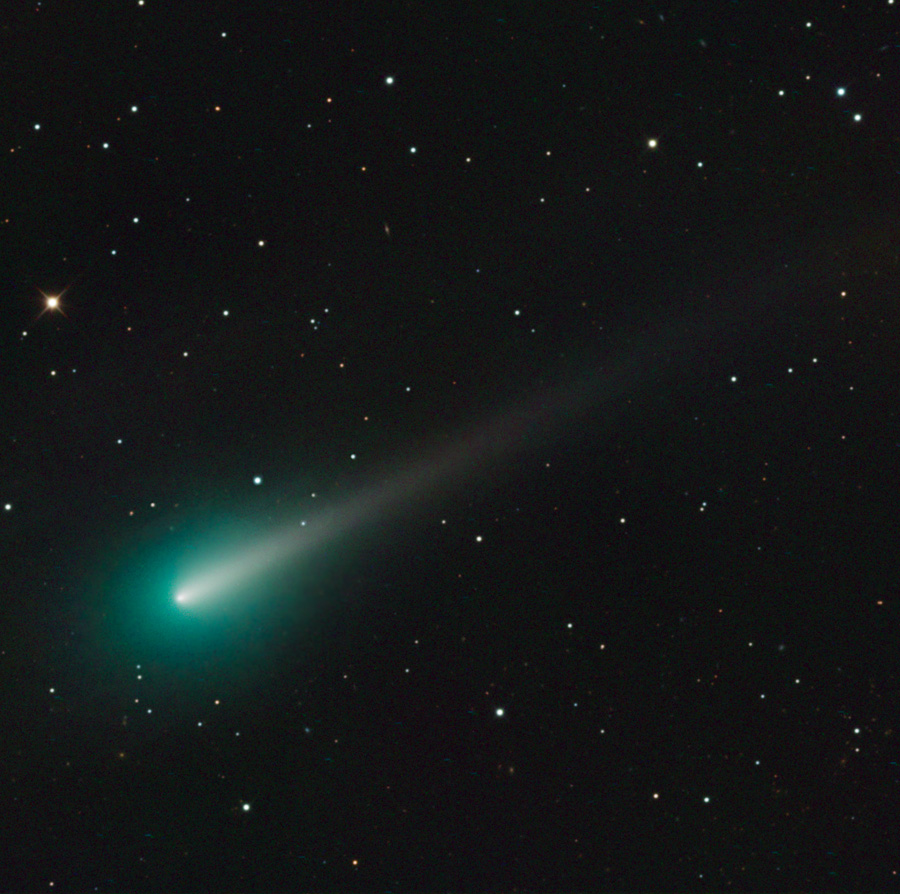 Comet ISON (C/2012 S1) seen from the Mount Lemmon SkyCenter on 8 October 2013, as it passes through the constellation of Leo; the image was captured using the 0.8m Schulman Telescope and an STX-16803 CCD camera.